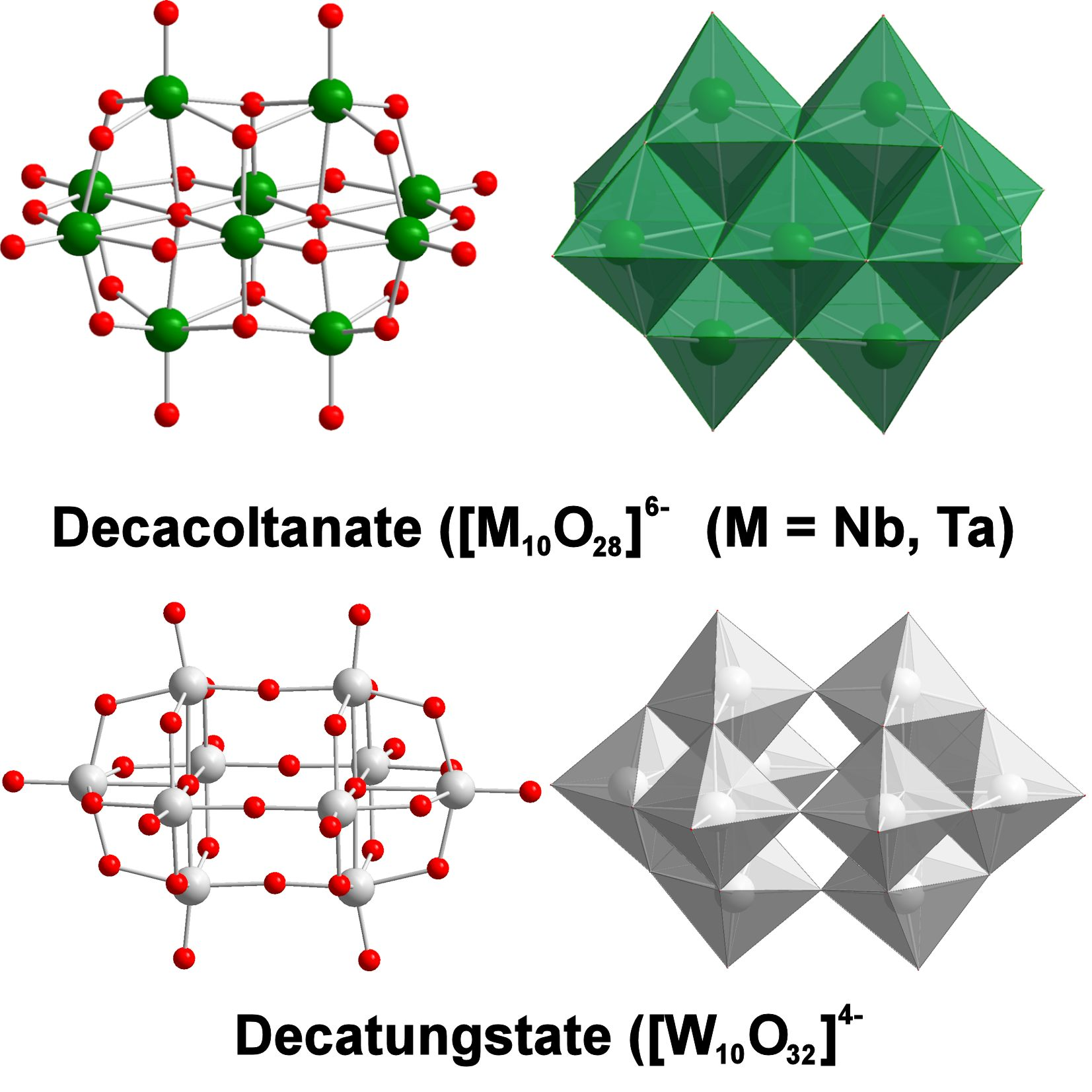 Molecular strucutures of polyoxometalates